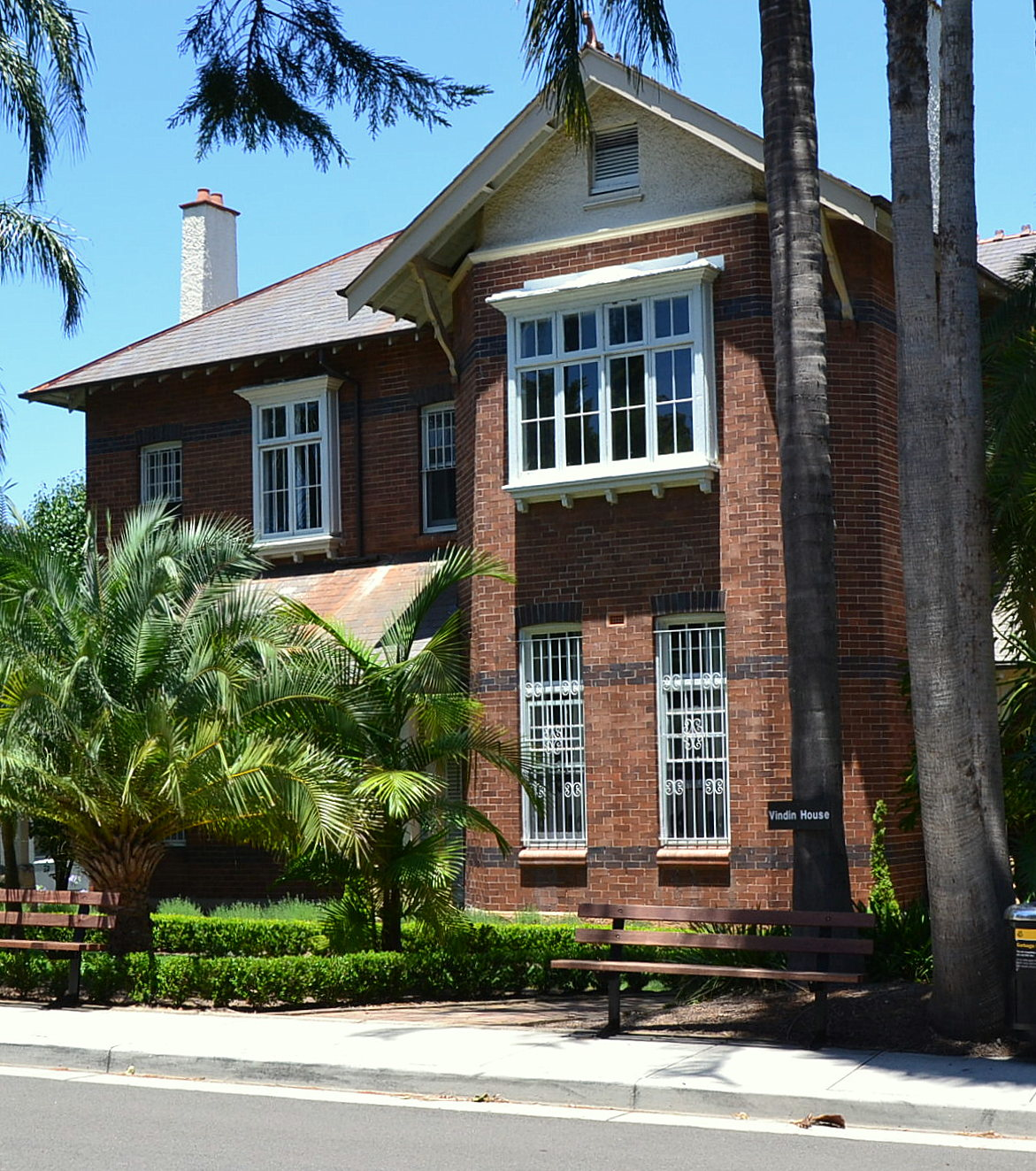 Vindin House, Abbotsleigh School, Wahroonga, Sydney, site of Grace Cossington Smith gallery